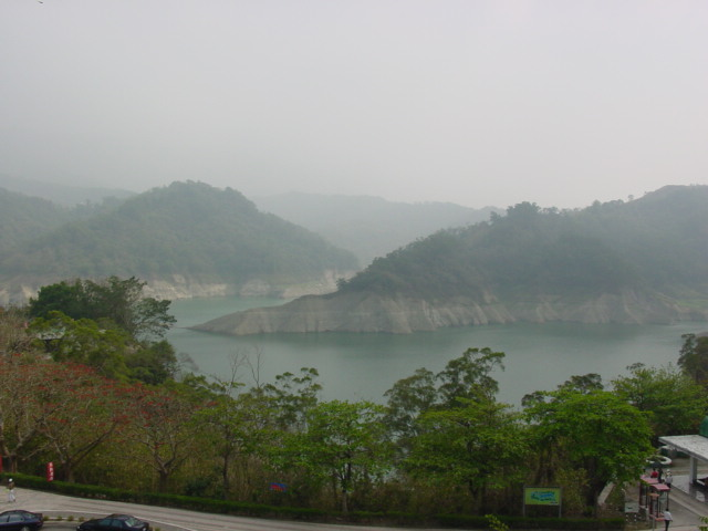 Zengwen Dam